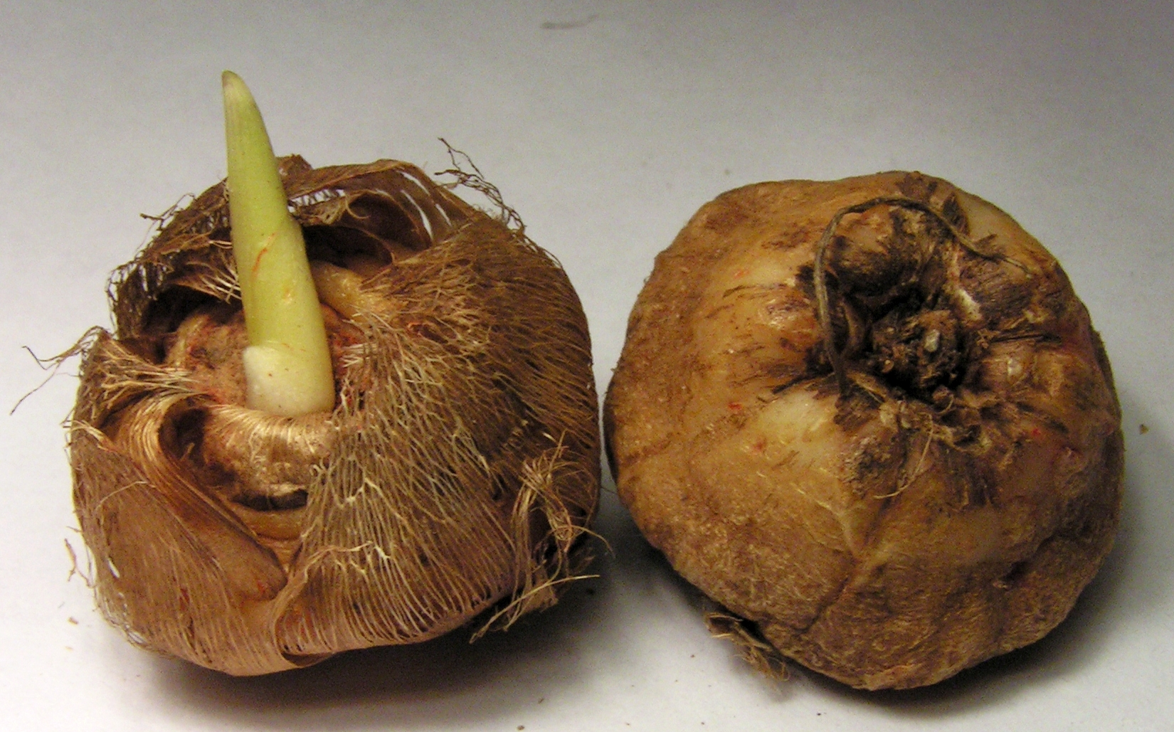 The сorms of Ixia sp. (diameter of the сorms is appr. 2 cm).